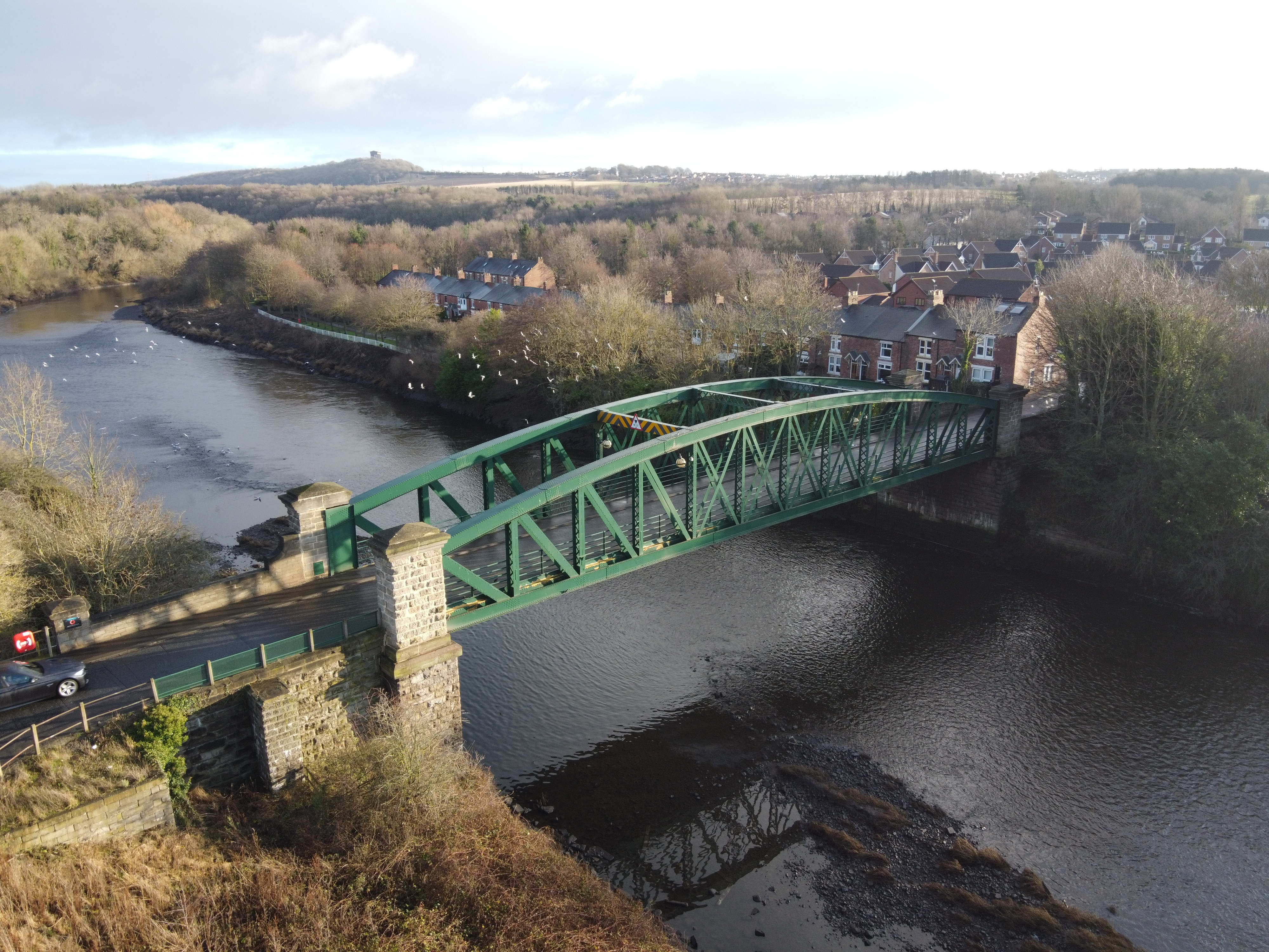 An aerial view of the bridge over the River Wear at Fatfield, Washington, Tyne & Wear. Referred locally as Fatfield Bridge and historically on Ordnance Survey maps as Penshaw Bridge.